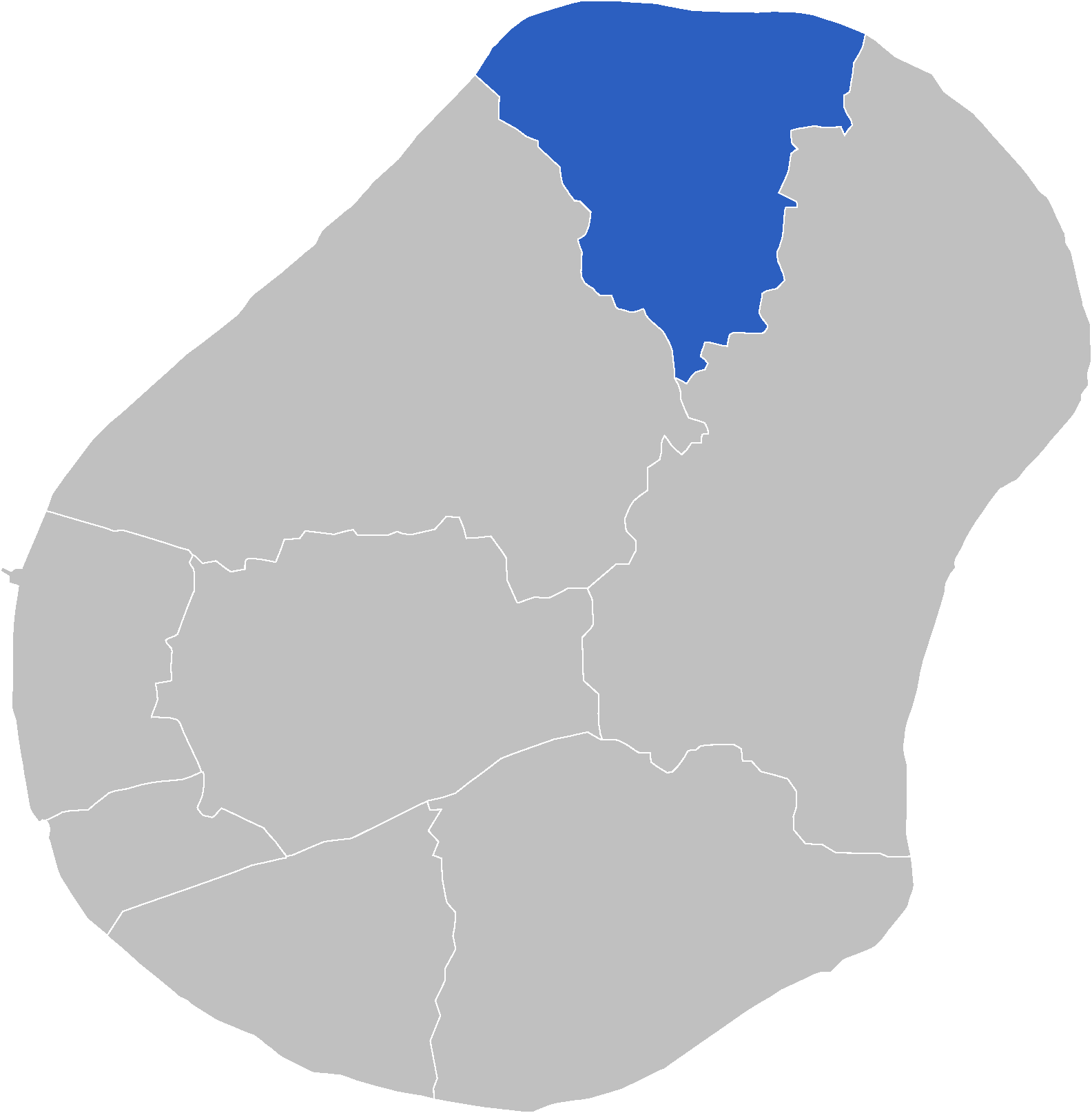 Location map of Anetan constituency, Nauru